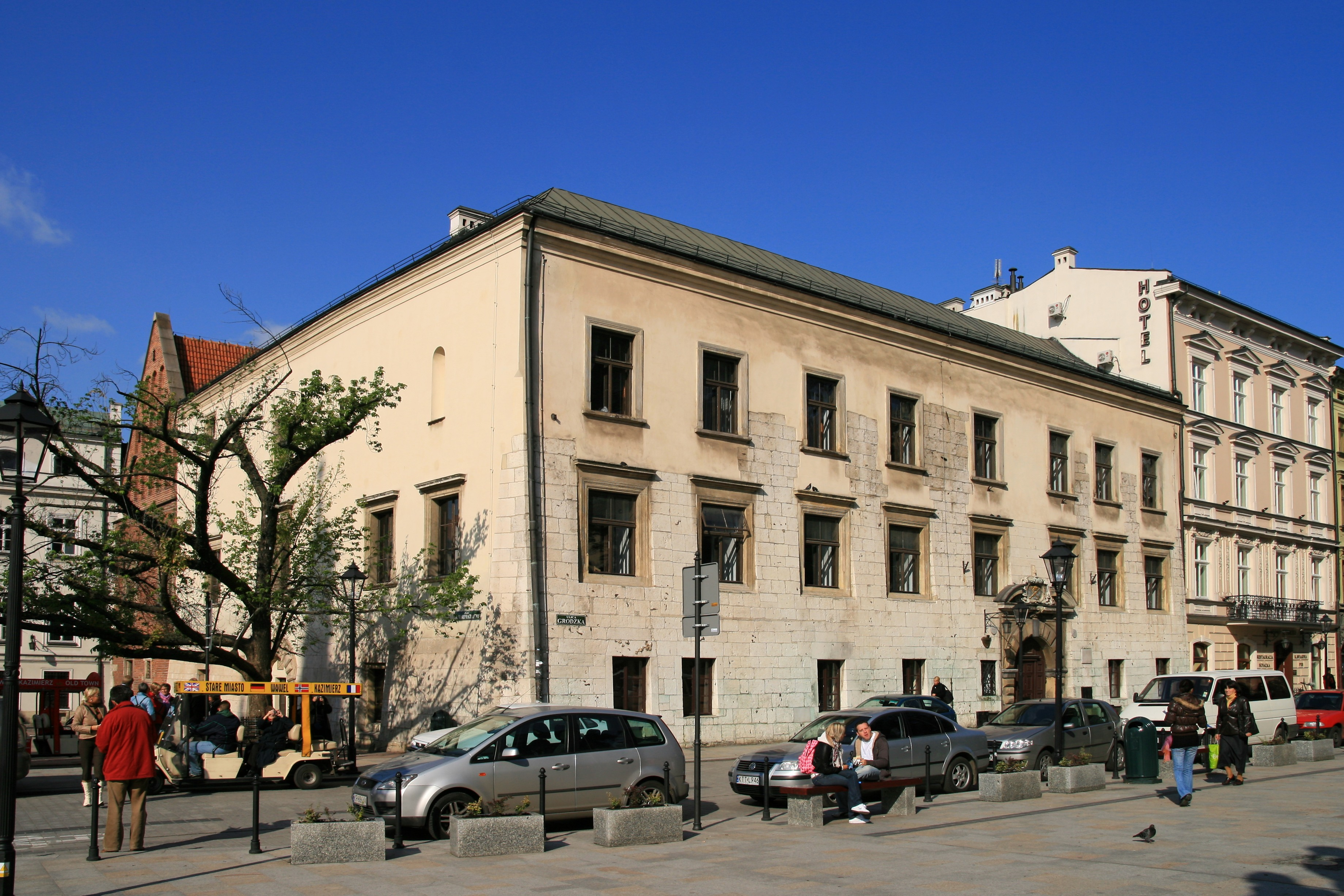 Collegium Iuridicum in Kraków (Poland).